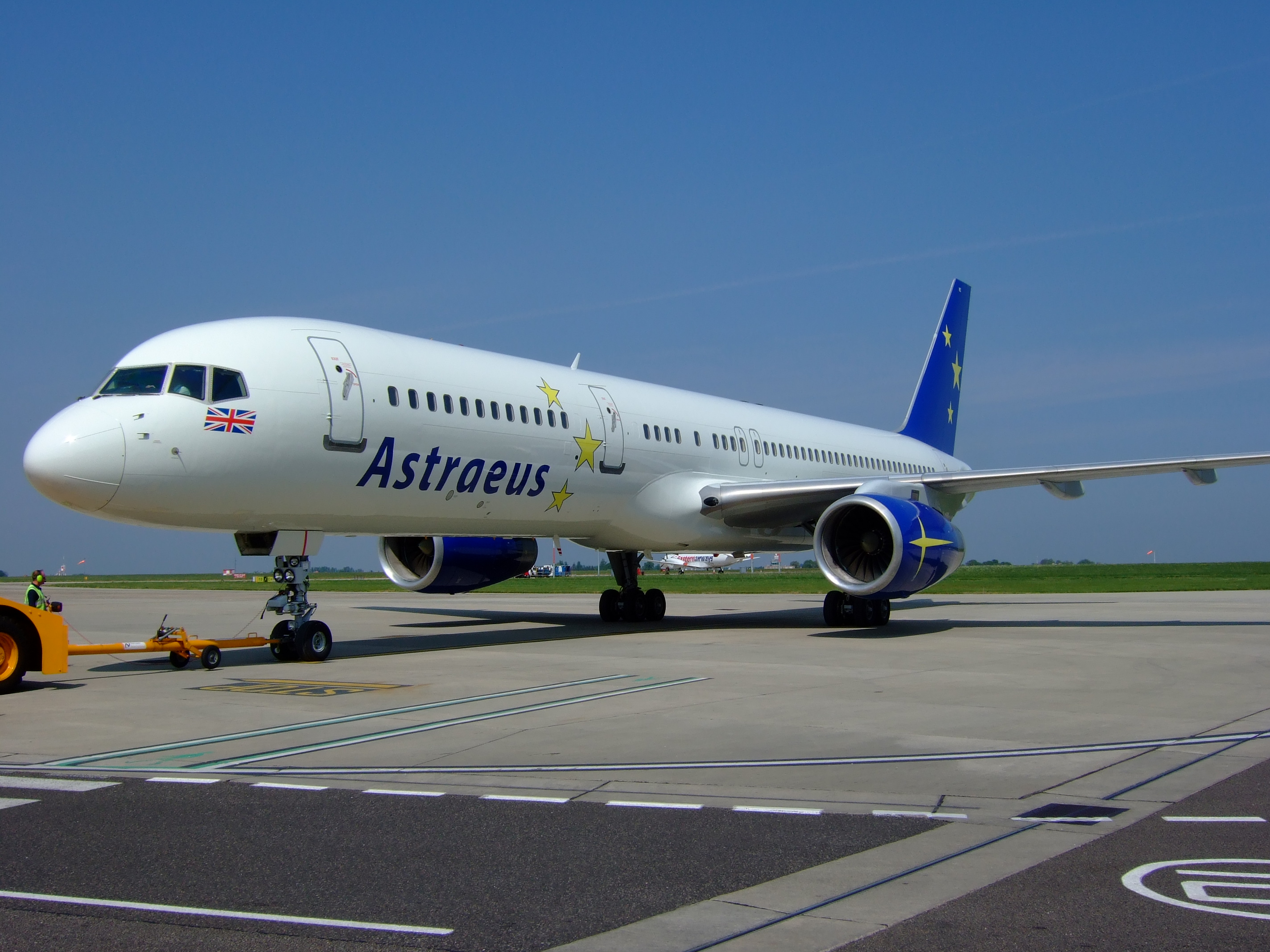 astraeus RZ